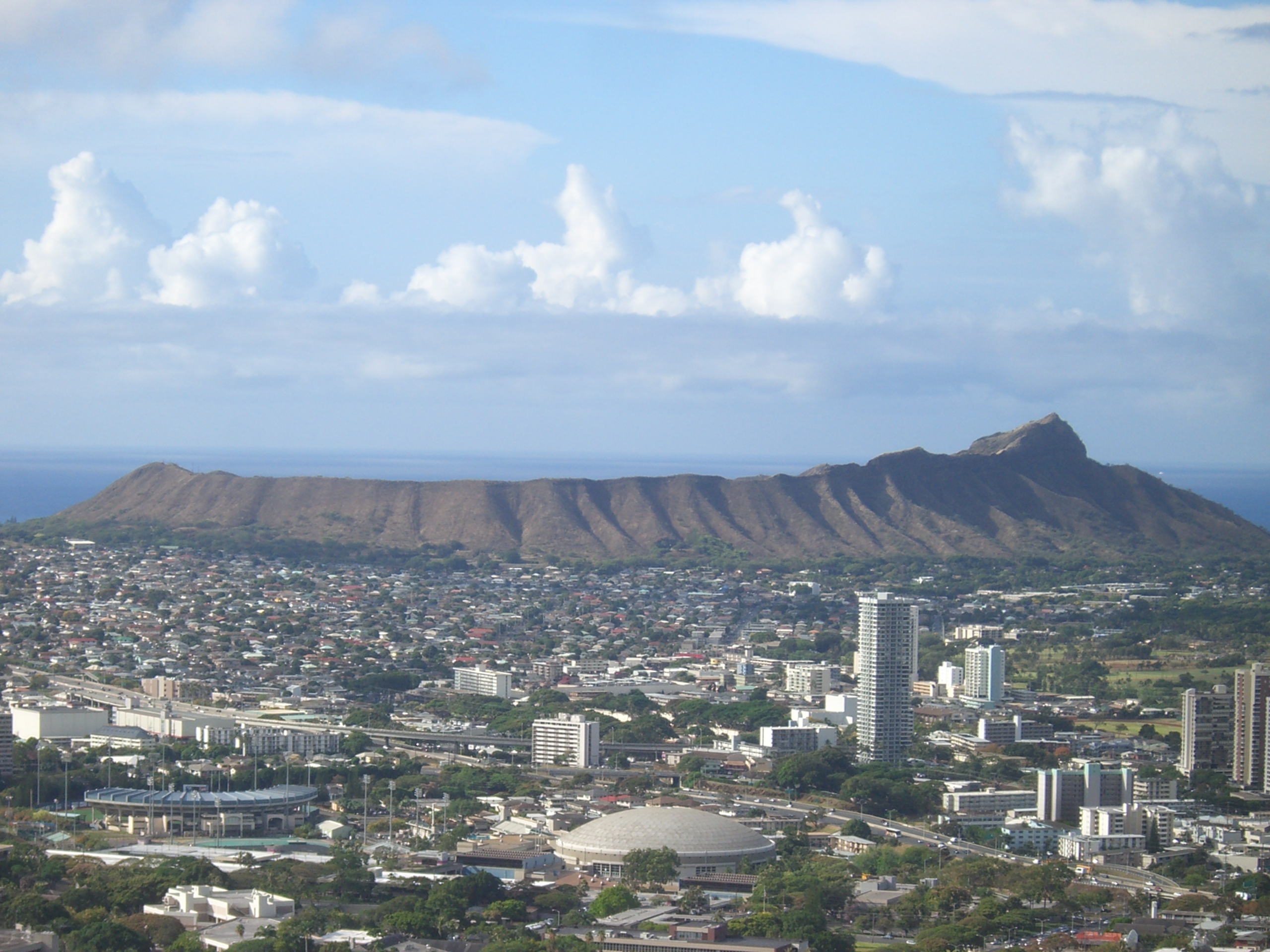 Diamond Head crater on the Hawaiian island of Oʻahu. Picture taken from Round Top Dr.